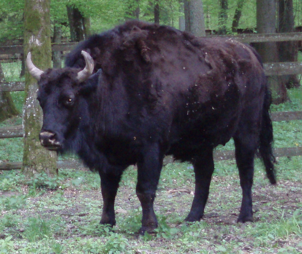 A zubron in nature reserve in Białowieża, Poland